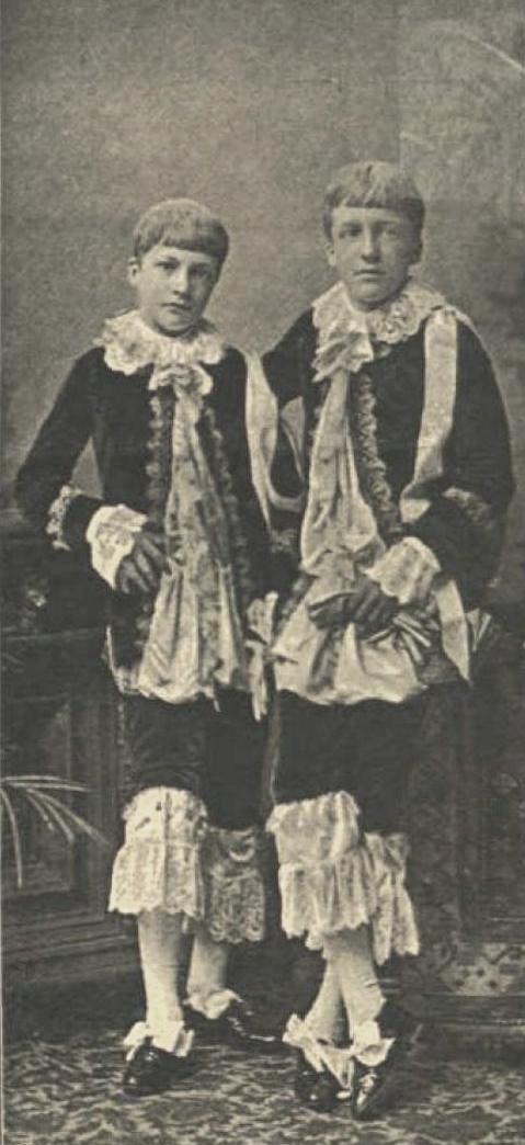 Archduke László of Austria and Archduke Joseph August of Austria